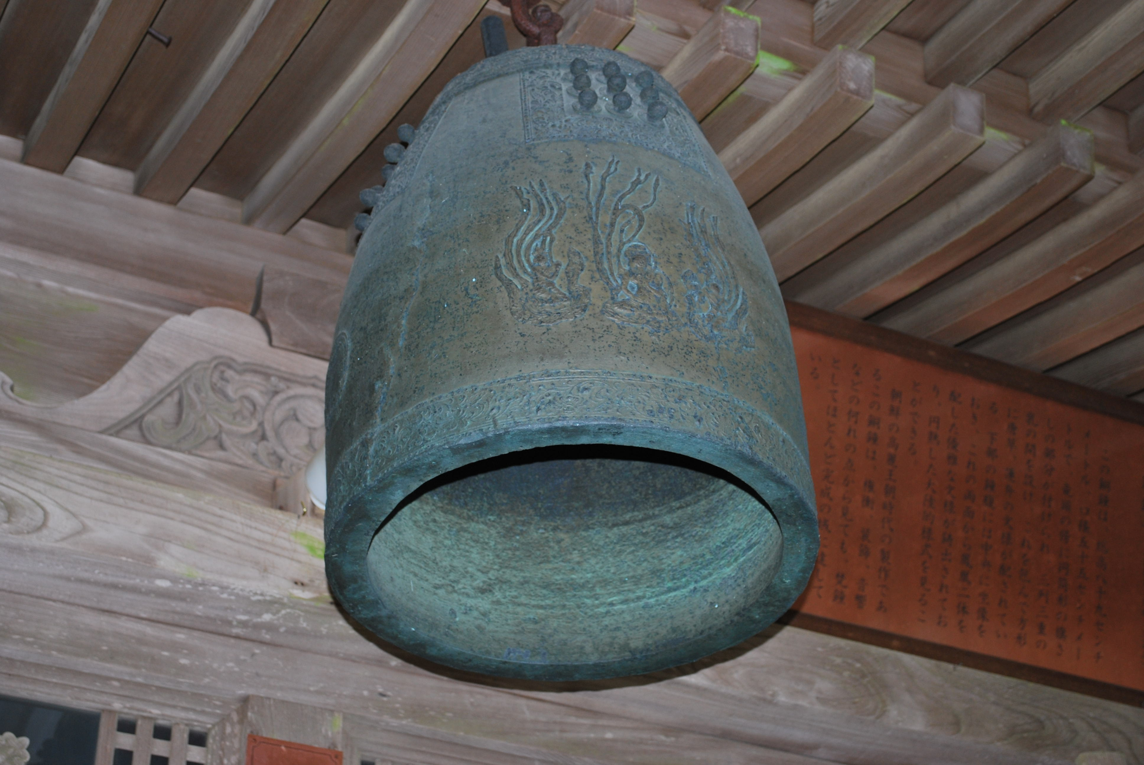 Korean bell(Japan's national important cultural property), Shusseki-ji temple, Ozu City, Ehime, Japan